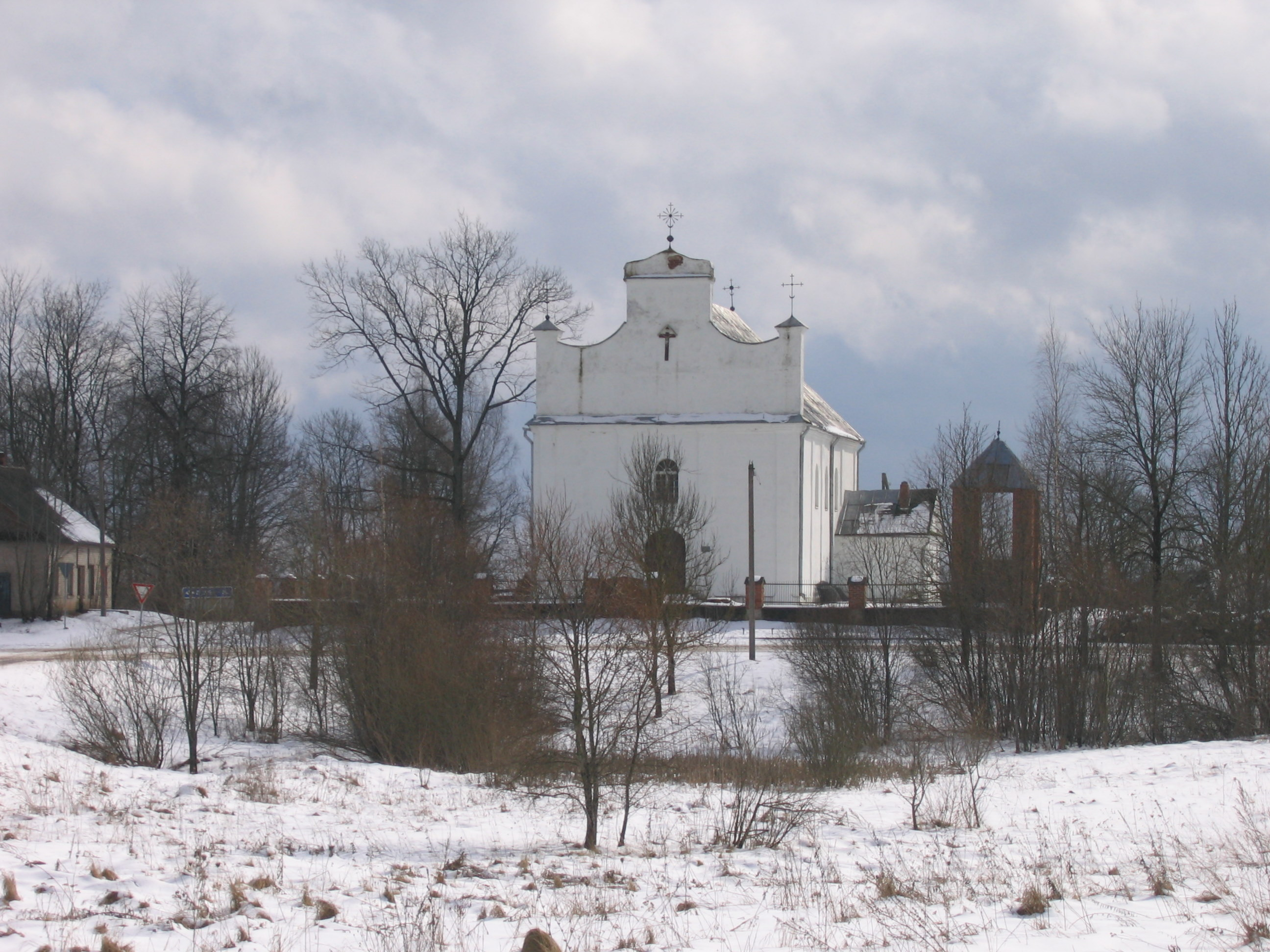 The Roman Catholic Church of the Ascension of Christ in Rundany